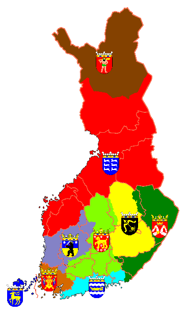 Historical provinces in Finland with coats of arms